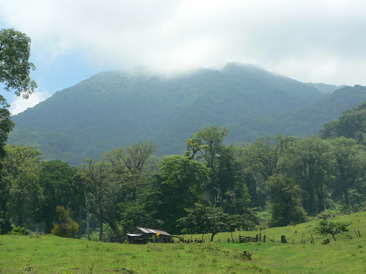 editor